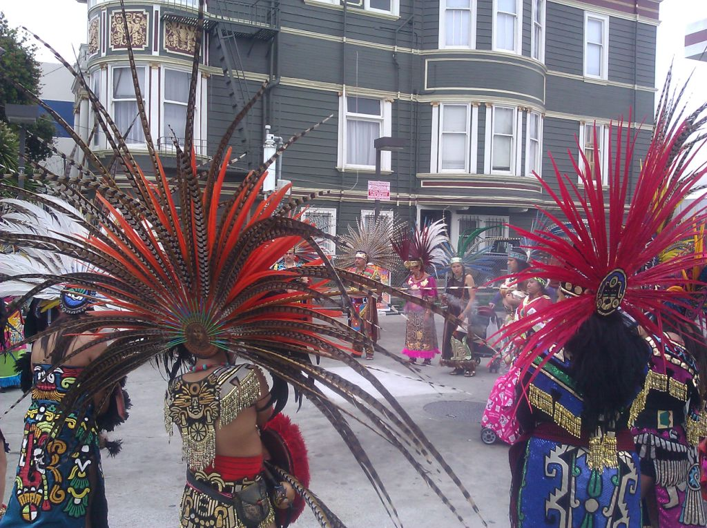 Concheros dancers assembled for Carnaval in San Francisco, California, May 2012.